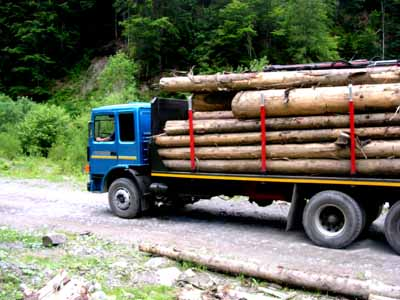 timber work in repedea